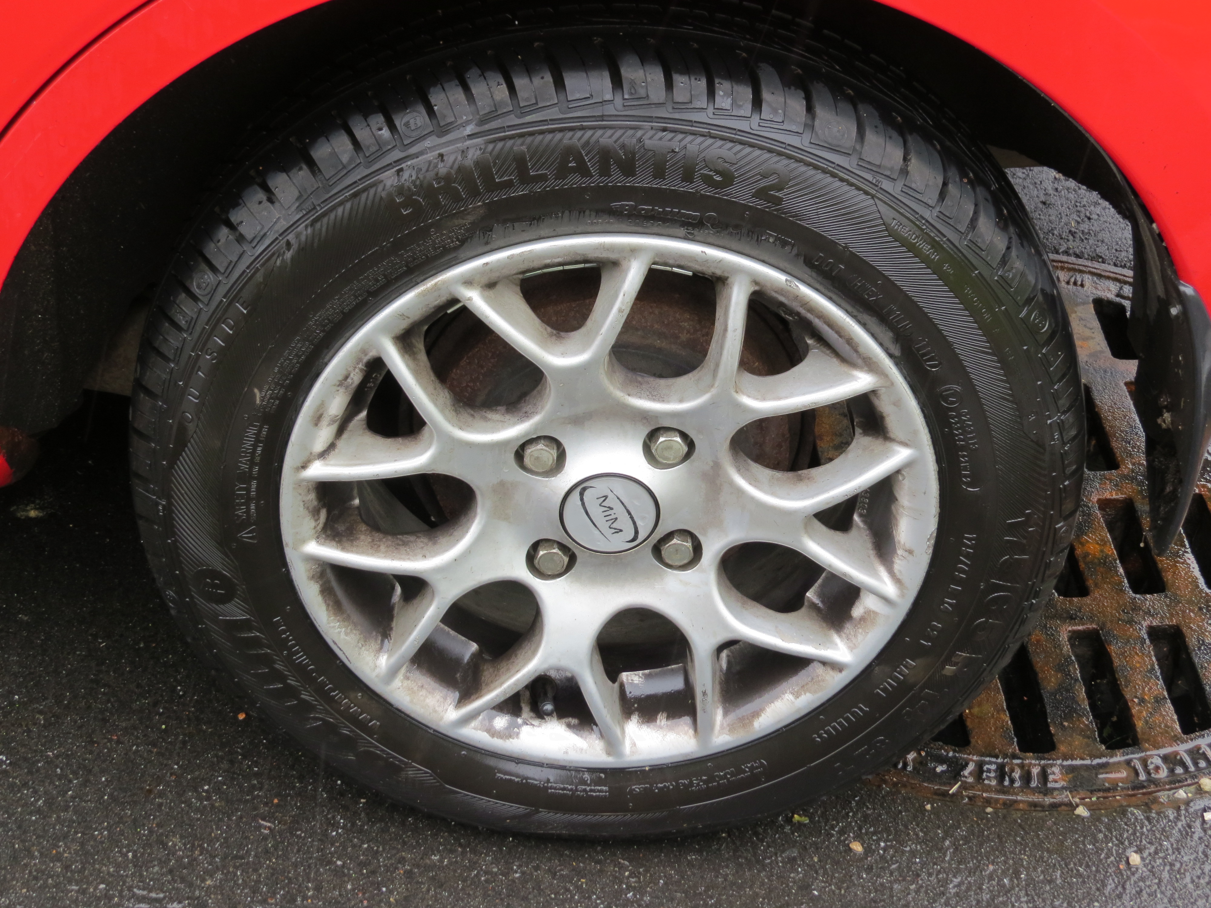 Barum Brillantis 2 175/65 R 14 82 T tire at Bahnhof Neumarkt an der Ybbs-Karlsbach